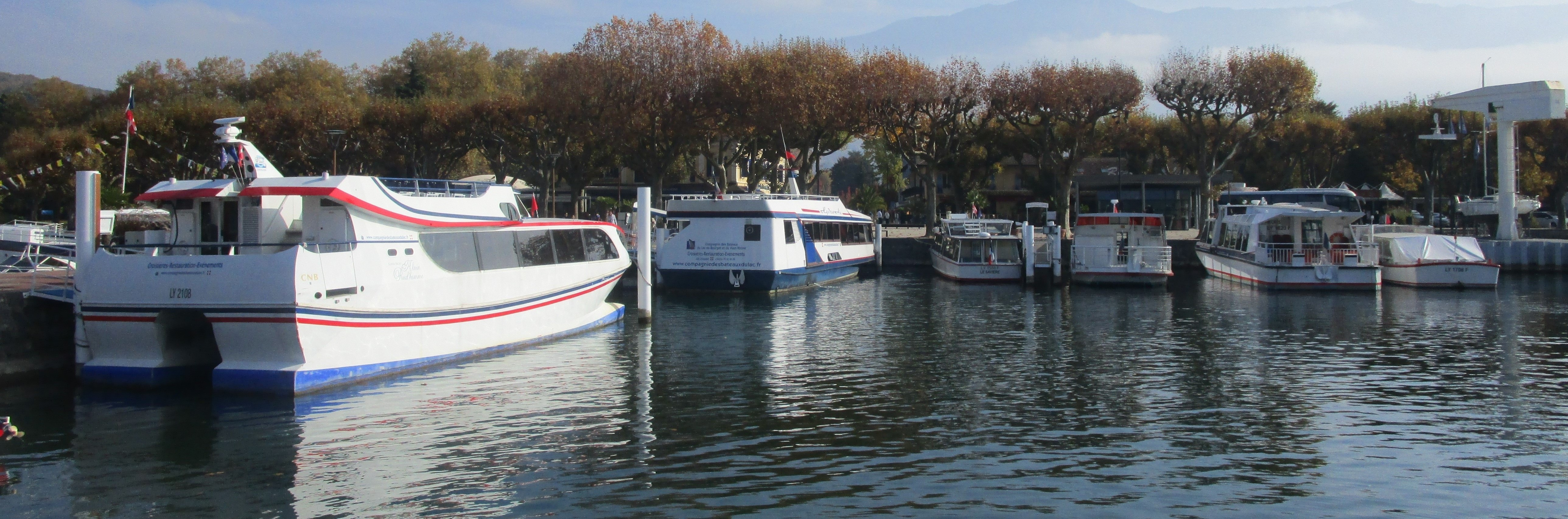 The fleet of the Compagnie des Bateaux du lac du Bourget et du Haut-Rhône at Aix-les-Bains on October 26, 2015. From left to right: * Alain Prud’homme, built in 2000 at Bordeaux * Hydra’Aix, built in 1992 at Ceys * Le Savière, built in 1983 at Villers-le-Lac * Aix’Space, built in 1986 at Saint-Gilles * Hélios, built in 1986 at Chambéry * L’Étoile, built in 1961 at La Seyne-sur-Mer